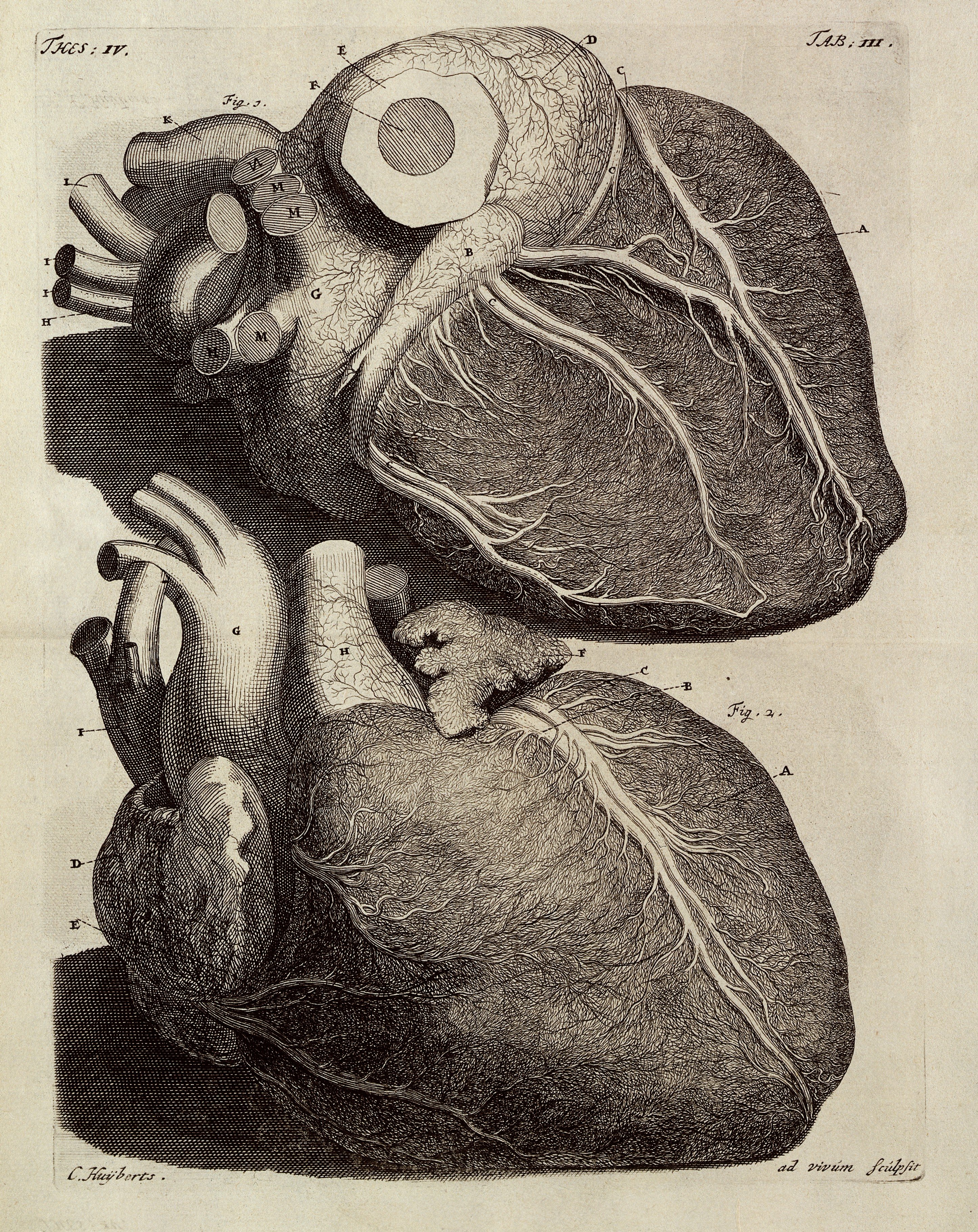 RUYSCH, Frederik {1638-1731} F. Ruysch, Thesaurus anatomicus primus [- decimus]... Het eerste [-tiende] anatomisch cabinet.Amstelædami : Apud Joannem Wolters (pt. X, Jansson-Waesberge), 1701-26. -Quartus: tab III: Human heart Rare Books Keywords: epb 45396/b/1; Anatomy; ruysch, frederik {1638-1731}; Heart